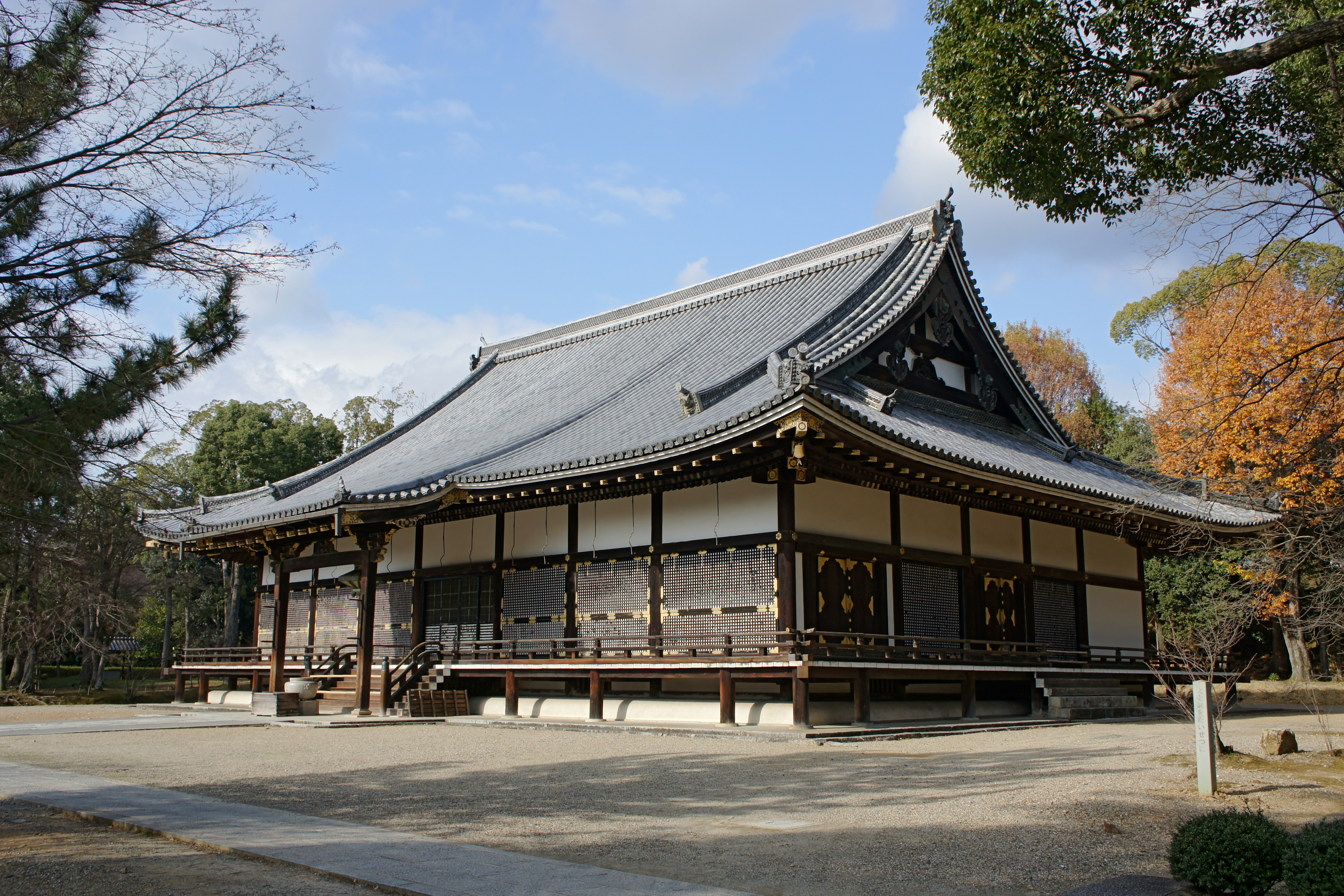 Ninna-ji's Golden Hall is Japan's National Treasure in Ukyō-ku, Kyoto, Kyoto Prefecture, Japan. Ninna-ji was registered as part of the UNESCO World Heritage Site "Historic monuments of ancient Kyoto".